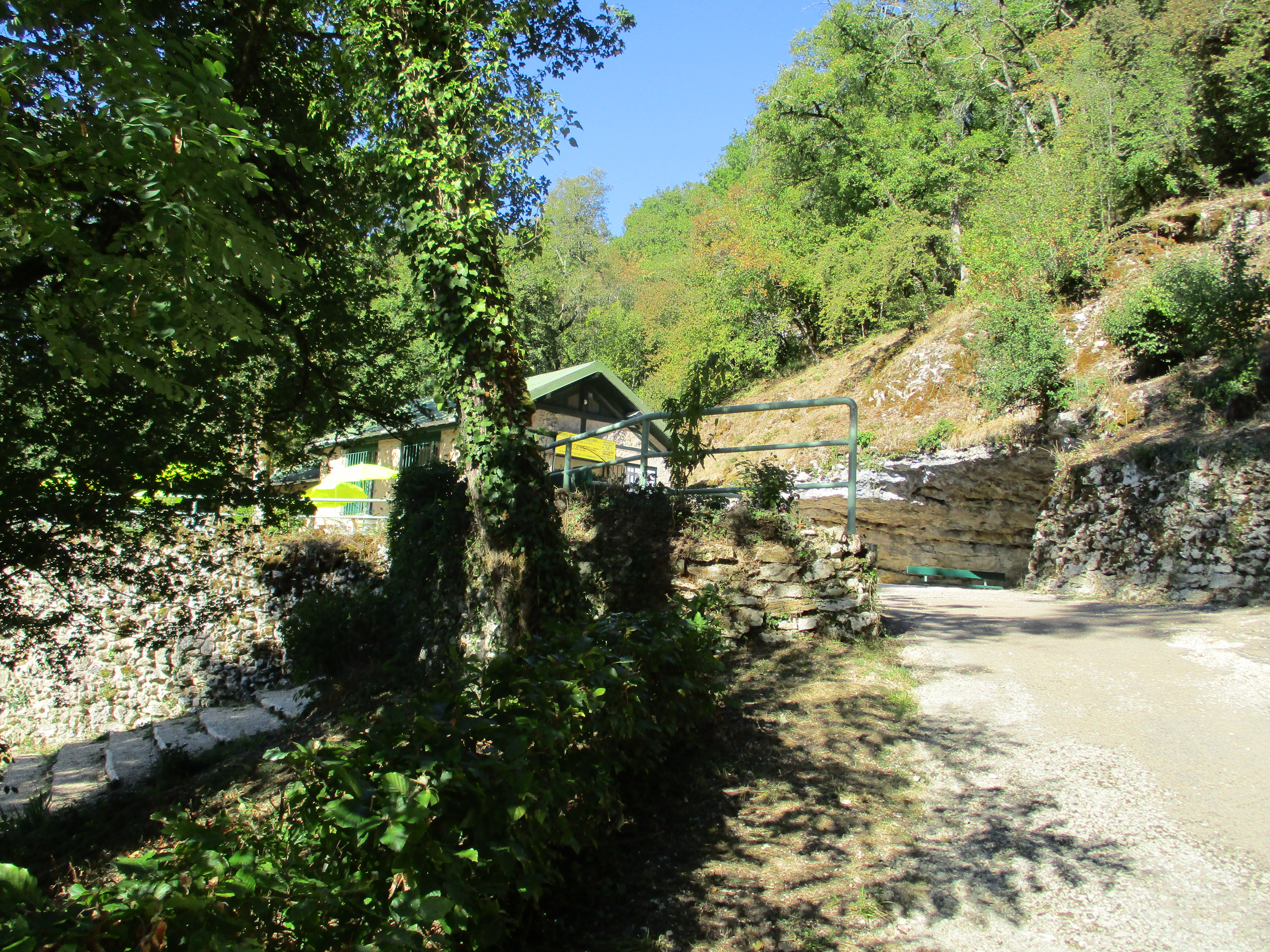 Grottes d'Arcy, Yonne, Burgundy, France. Entrance to the Great cave at the top of the path on the right. The ticket building is partly seen on its left.In the left part of the photo, the steps going down to the building that shelters the way out for the Great cave's visiting circuit.